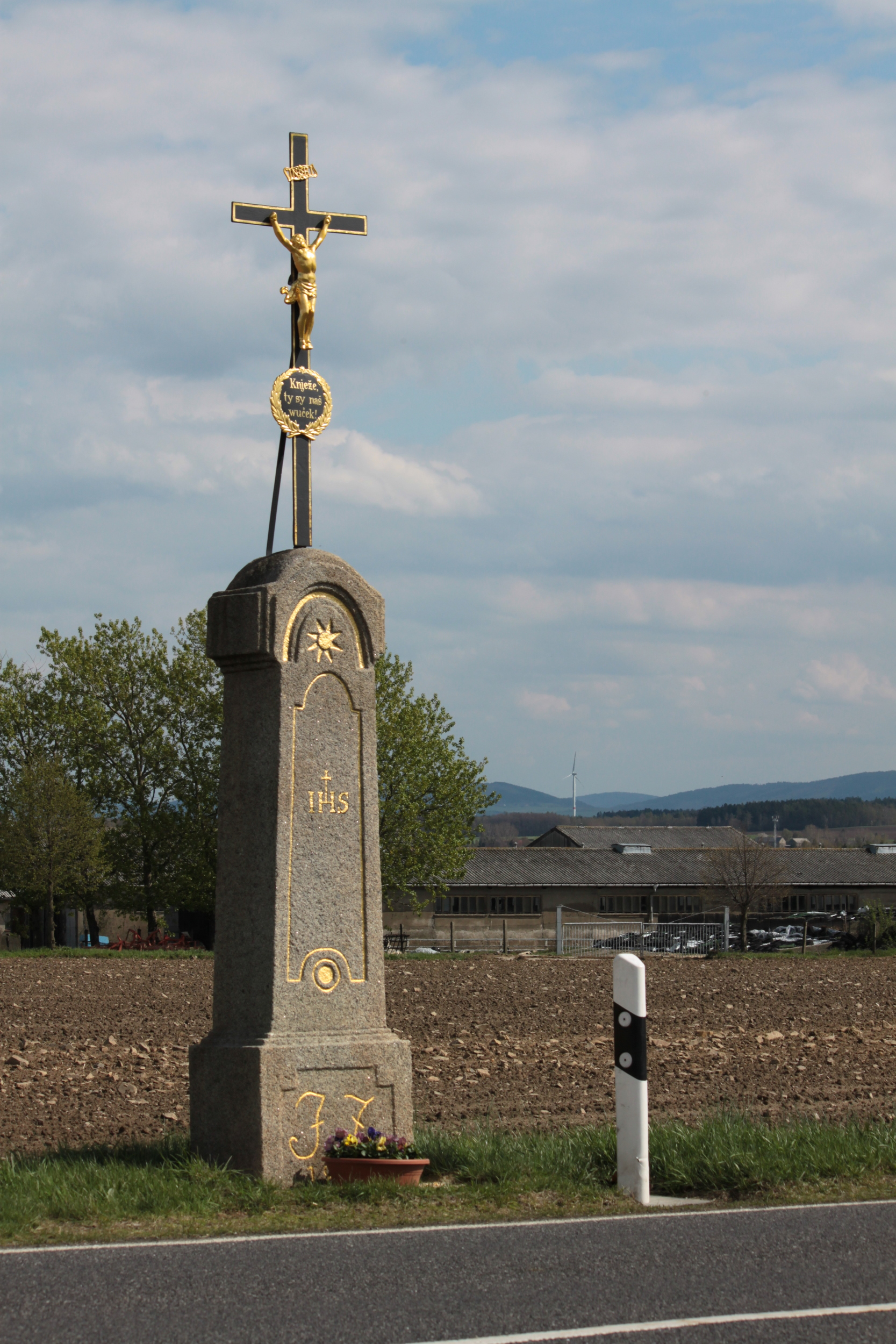 Wayside cross in Kaschwitz/Kašecy, municipality of Panschwitz-Kuckau, Bautzen district, Saxony. Inscription: „Knježe, ty sy naš wuček.“ («Lord, you are our refuge.»)